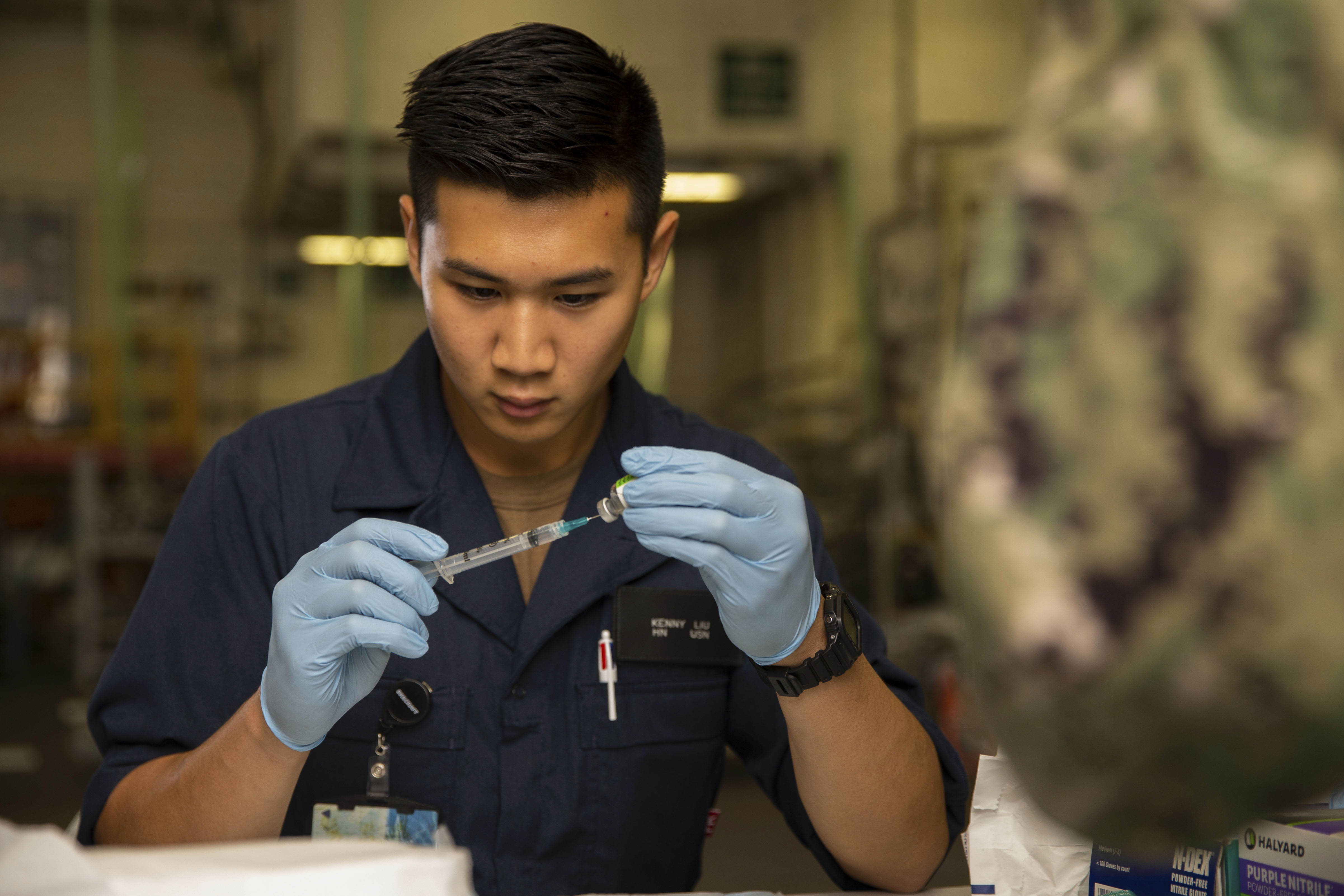 NEWPORT NEWS, Va. (Oct. 22, 2019) Hospital Corpsman Kenny Liu, from San Jose, assigned to USS Gerald R. Ford's (CVN 78) medical department, prepares a needle with a flu vaccination in the ship's hangar bay. Ford's medical department is vaccinating the entire crew against the flu virus in order to ensure the crew remains medically ready as the ship prepares to go out to sea. (U.S. Navy photo by Mass Communication Specialist Seaman Apprentice Angel Thuy Jaskuloski)